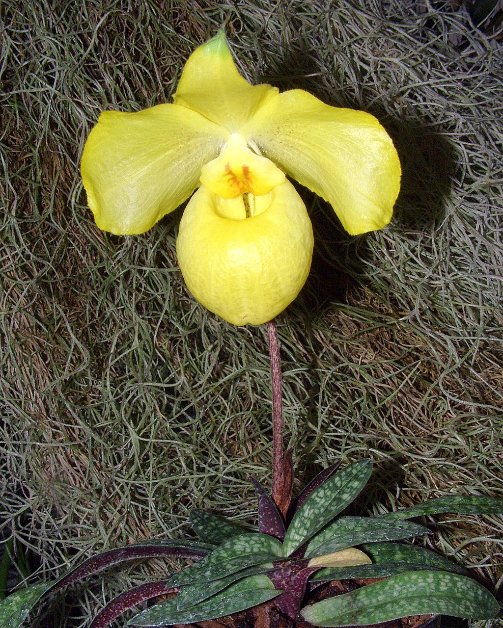 Paphiopedilum armeniacum - part of plant